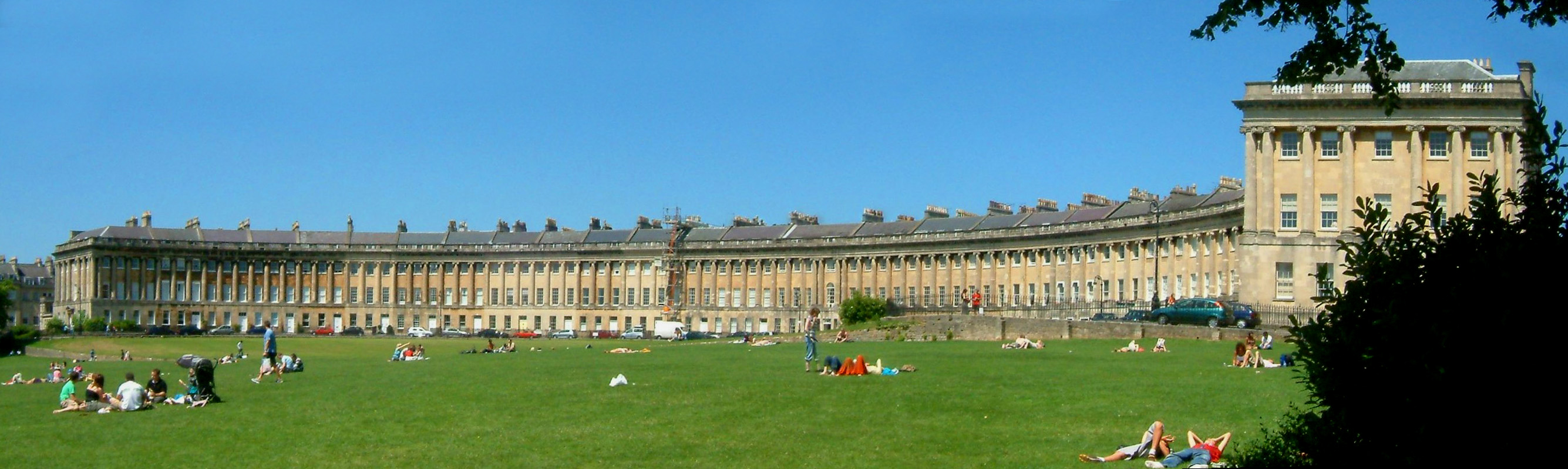 Royal Crescent, Bath, England, United-Kingdom